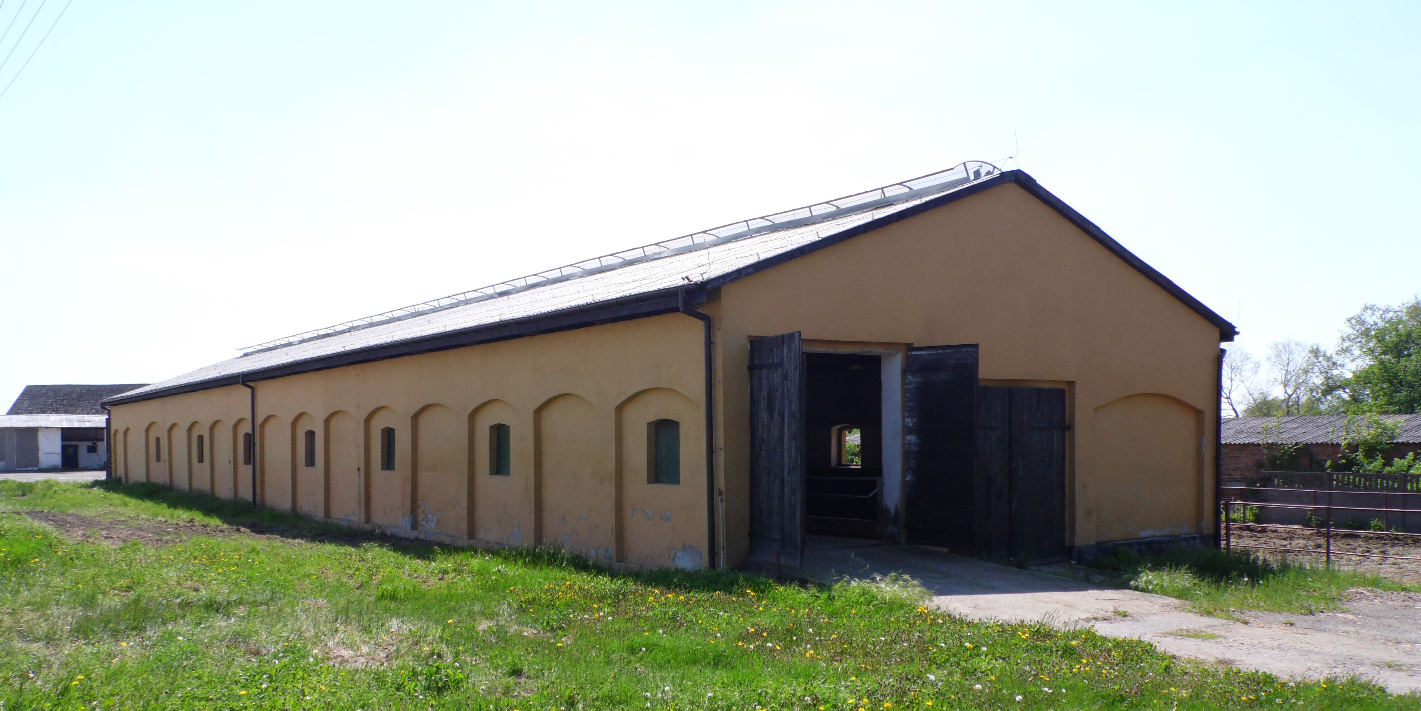 Farm team: fold from 1910 Lubonia / Leszno district / province. Greater Poland / Poland